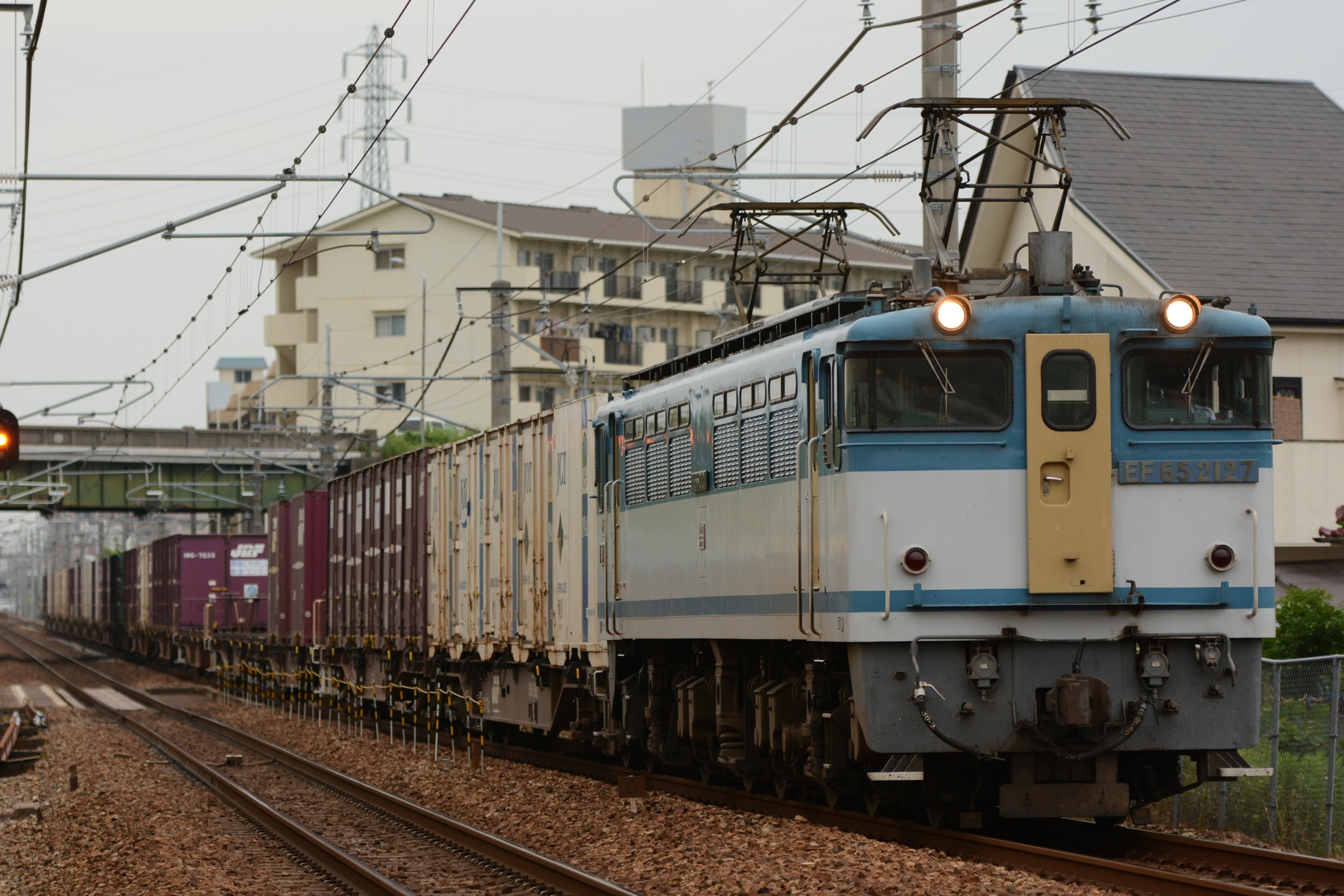 JR Freight Class EF65-2000 electric locomotive EF65 2127 on a Sanyo Main Line freight service